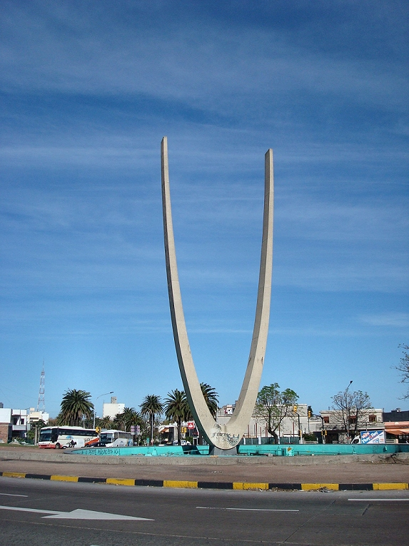 Monumento a Luis Batlle Berres ("Los Cuernos de Batlle"), Bulevar Artigas, Jacinto Vera, Montevideo, Uruguay.